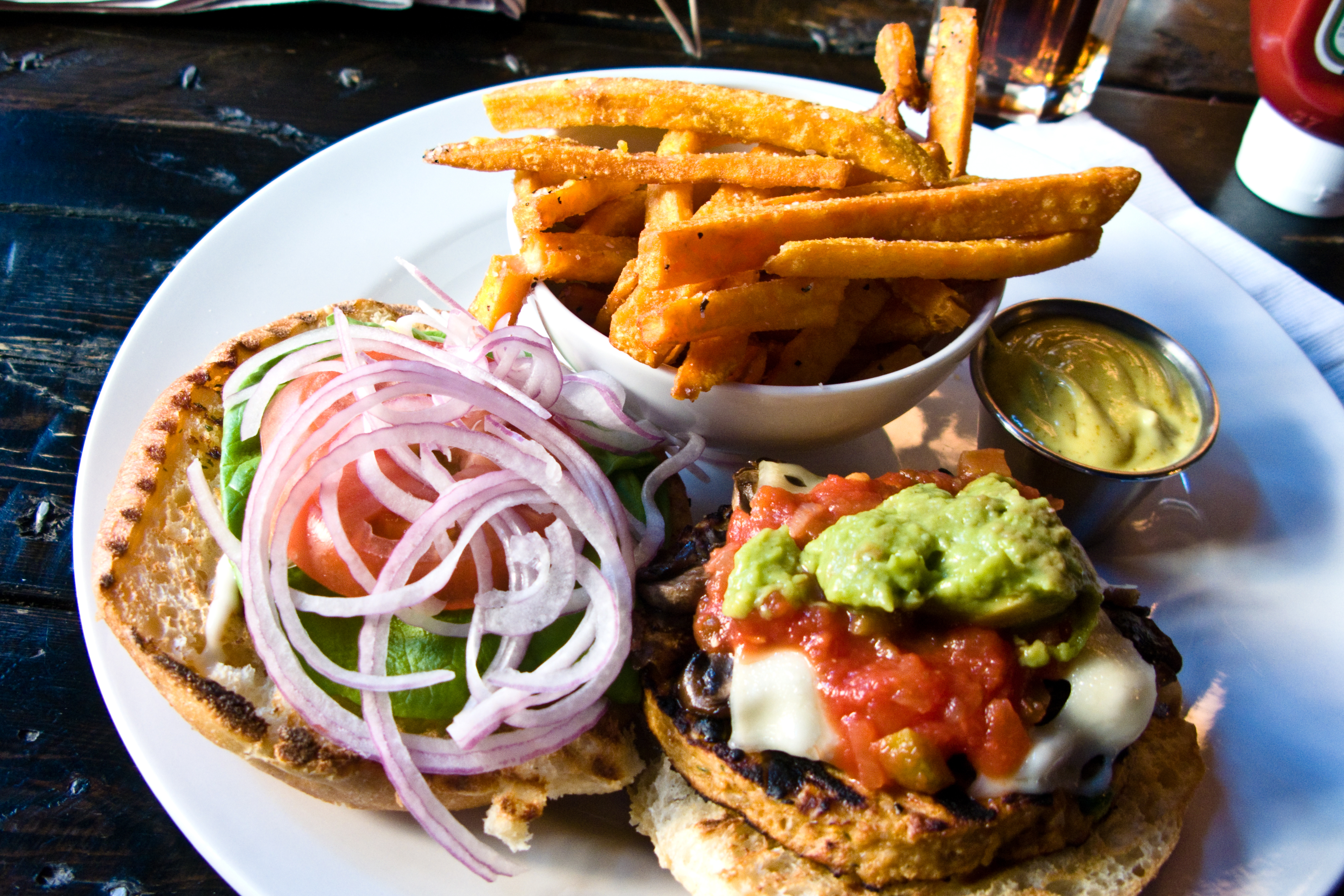 Veggie Burger